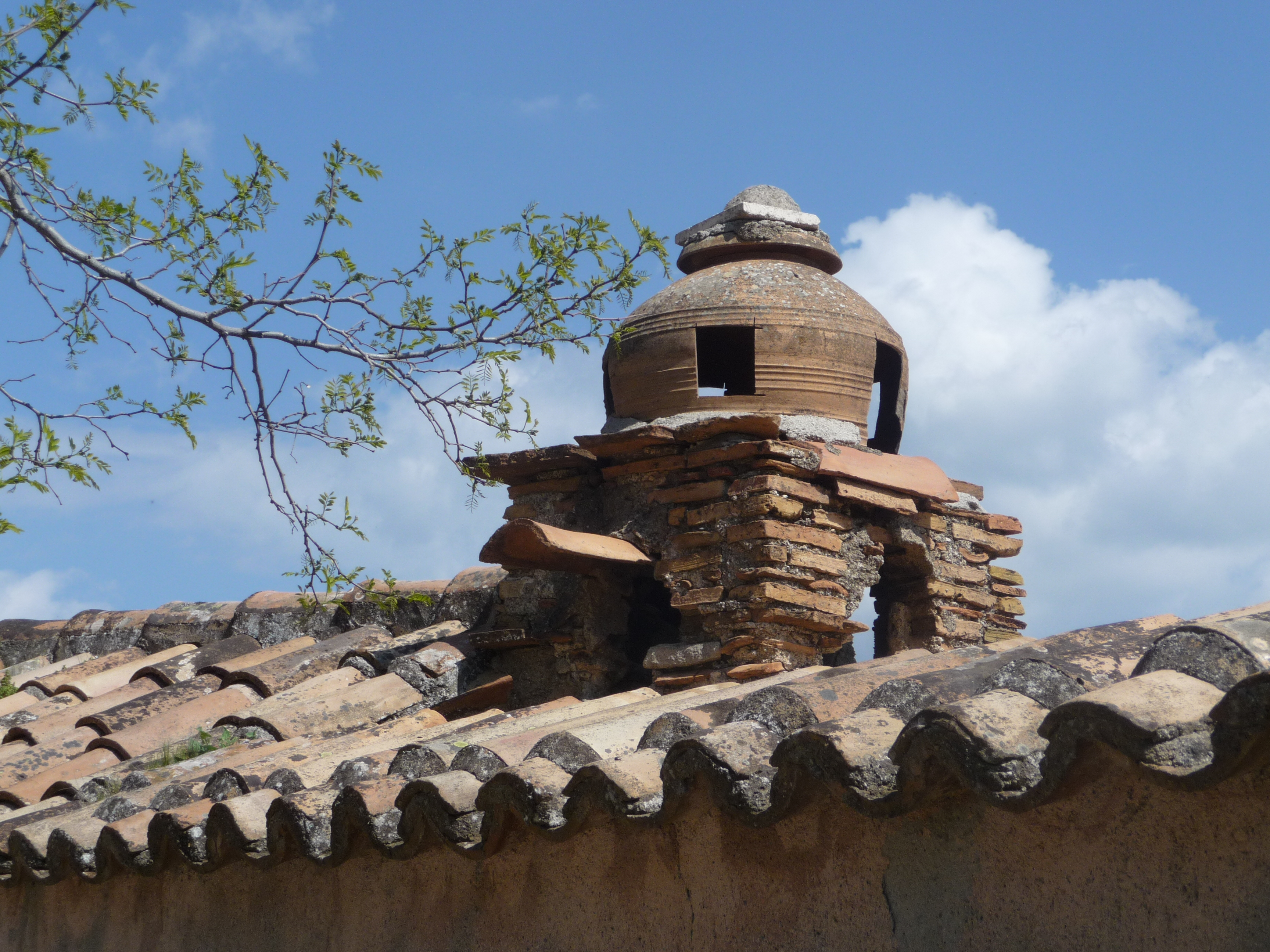 chimney of Monastery of Monte Stella